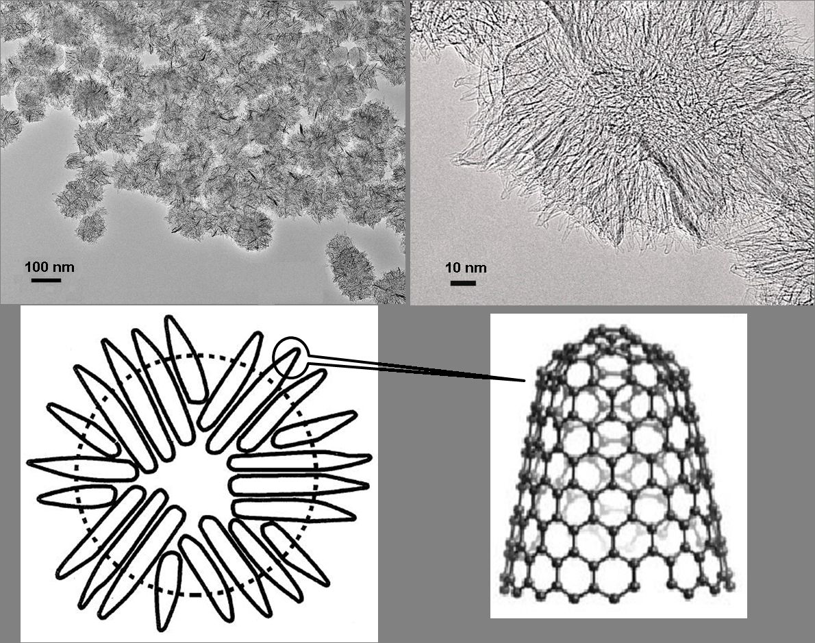 Carbon Nanohorn Combination